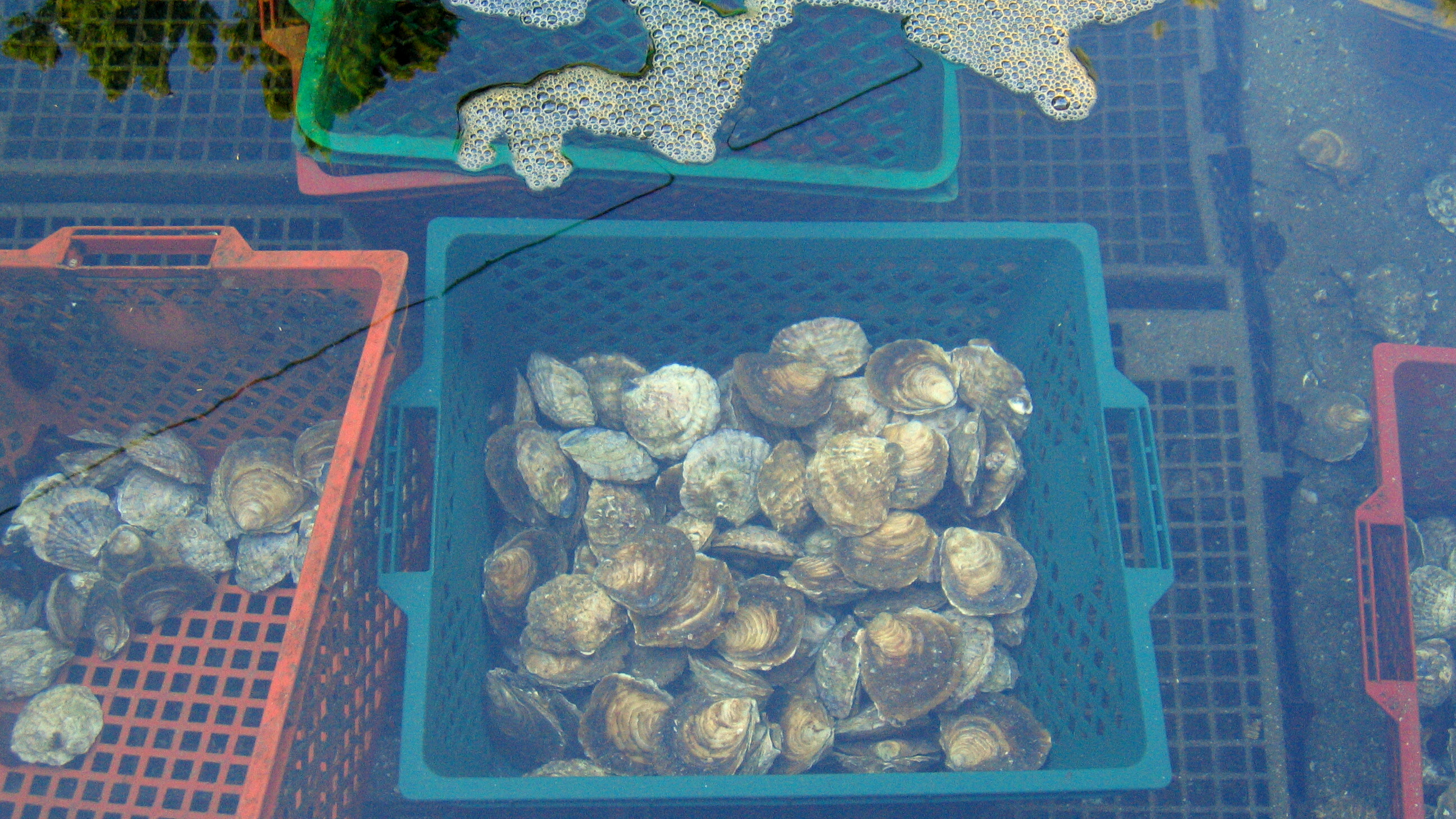 Oysters (Ostrea edulis) in a claire at Belon, Brittany, France